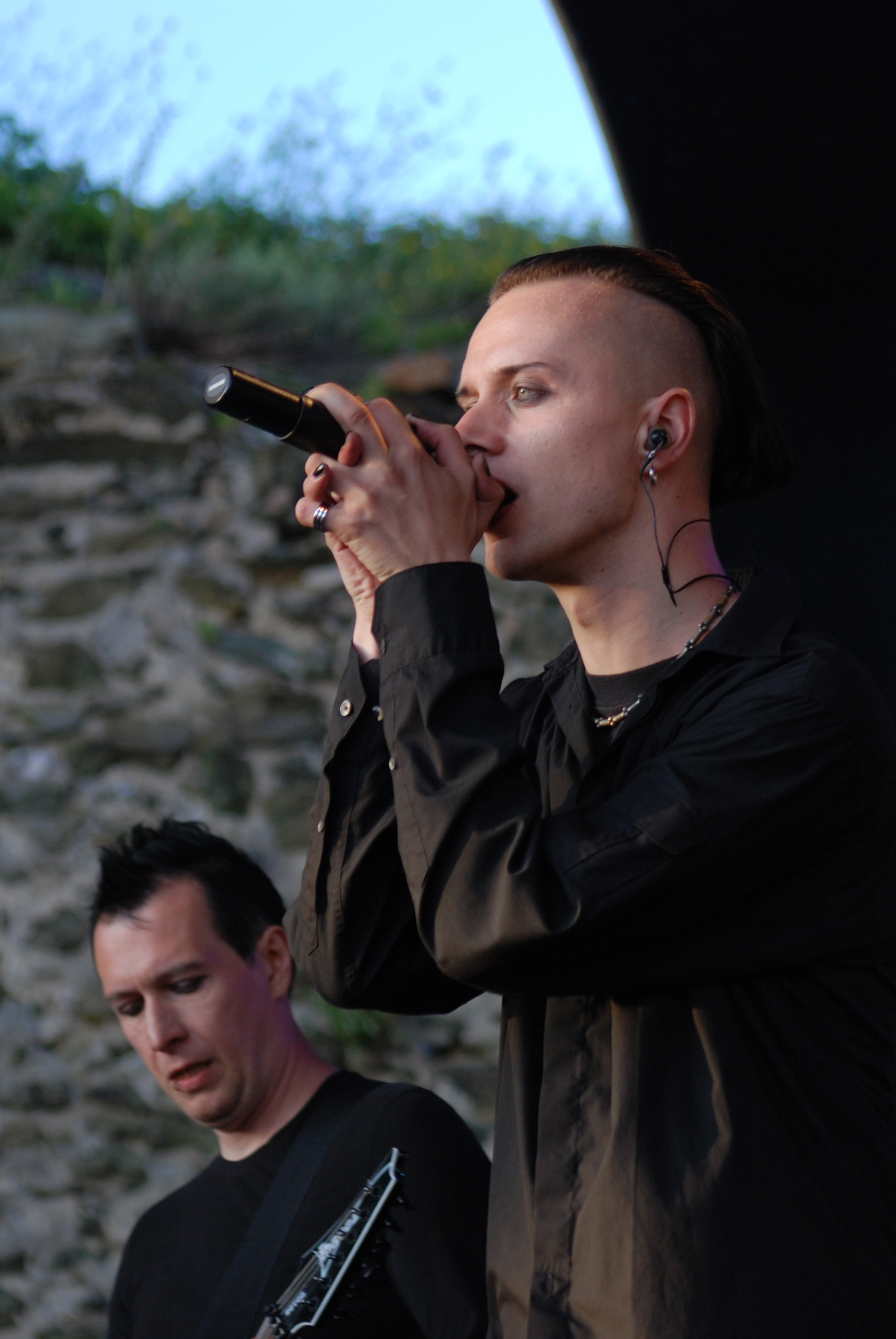 This photo was made in cooperation with CASTLE PARTY PRODUCTIONS in Bolków (webpage)